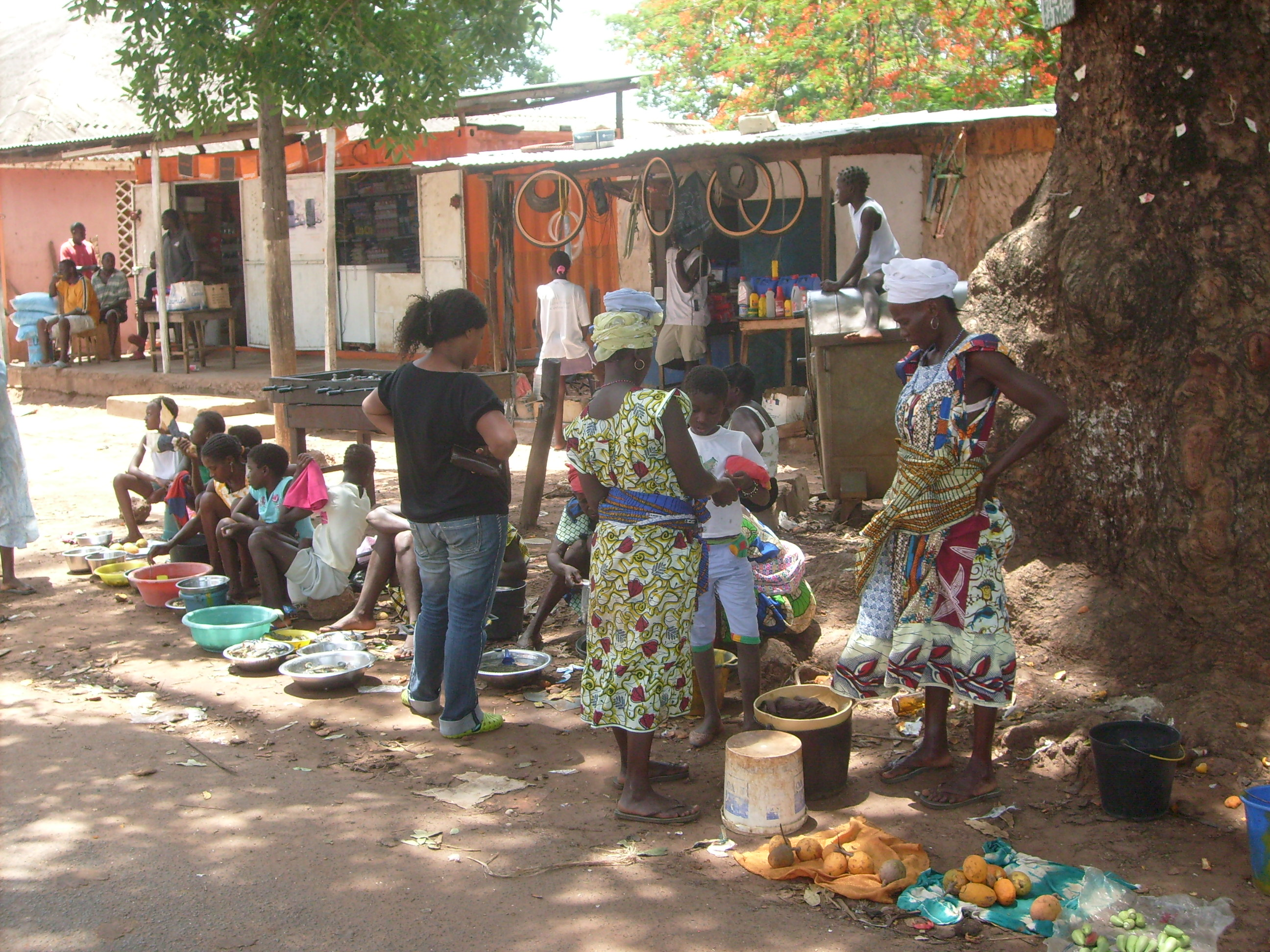 Main street of Quinhamel, Guinea-Bissau with market